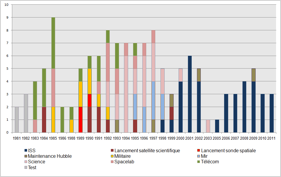 Number of mission of the space shuttle by type and year